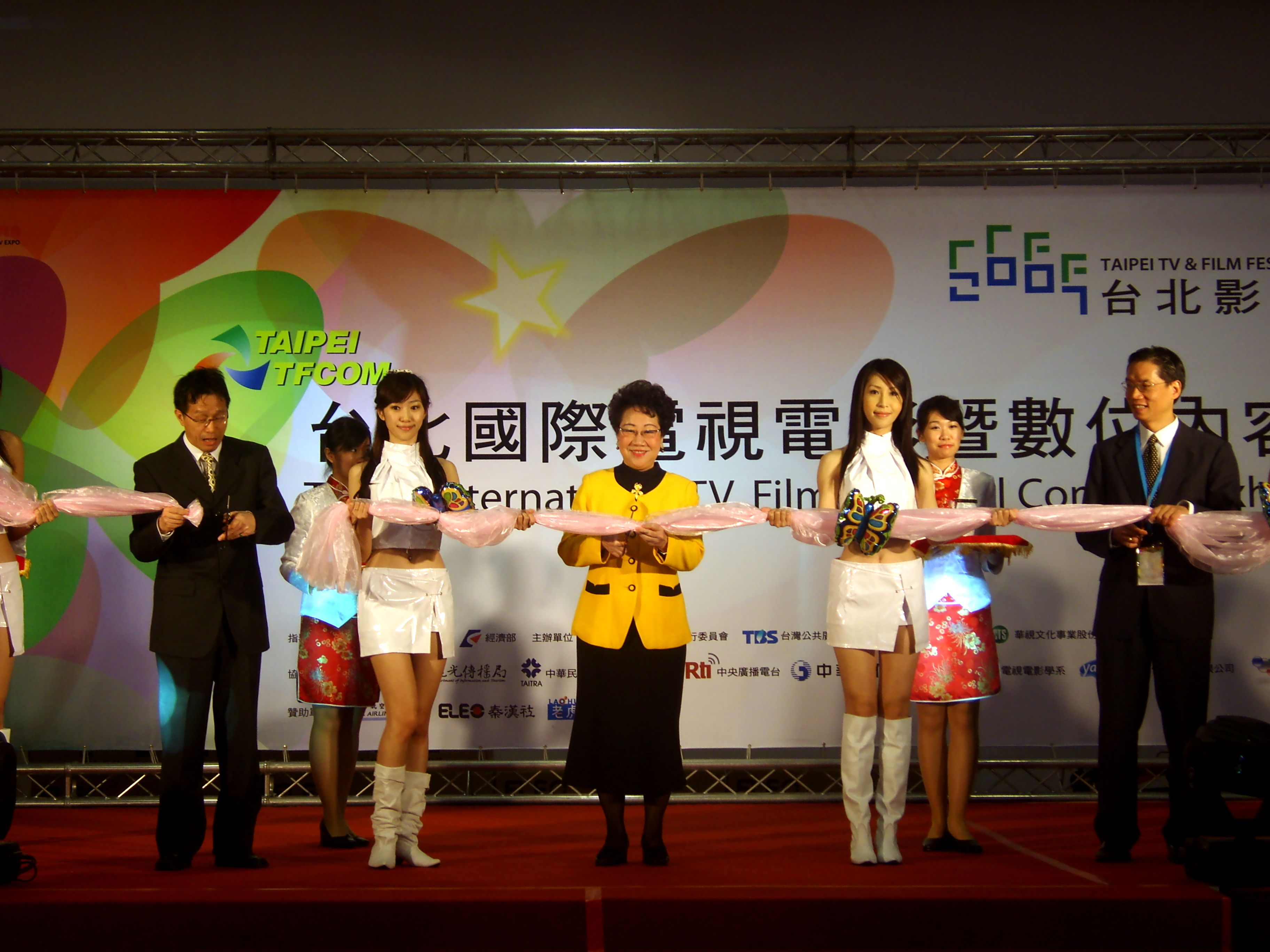 Opening Ceremony of 2007 Taipei TFCOM.